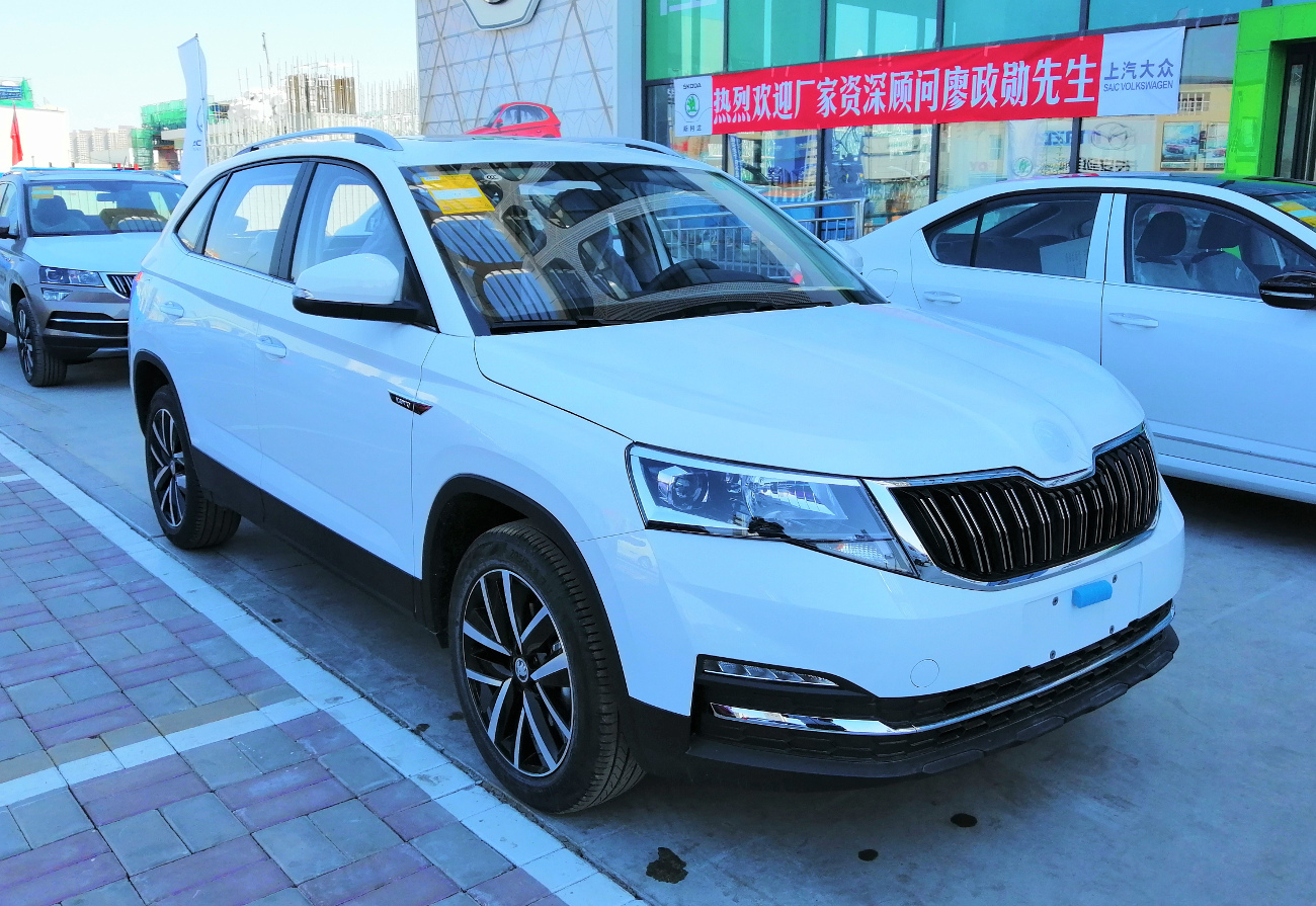 Škoda Kamiq CN photographed in Hohhot, Inner Mongolia autonomous region, China.